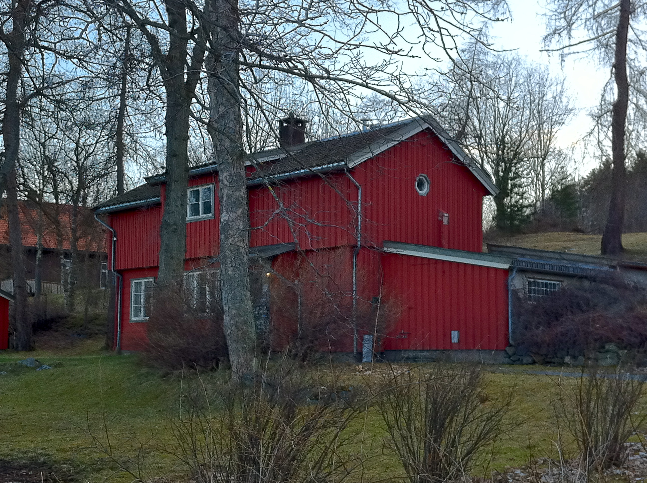 Adrianstua, former home of author Kristian Kristiansen. Now honorary residence, owned by the Trondheim municipality, Norway. The local author organisation has the house at its disposal. Authors may be bestowed the honour of living there for a period of five years.